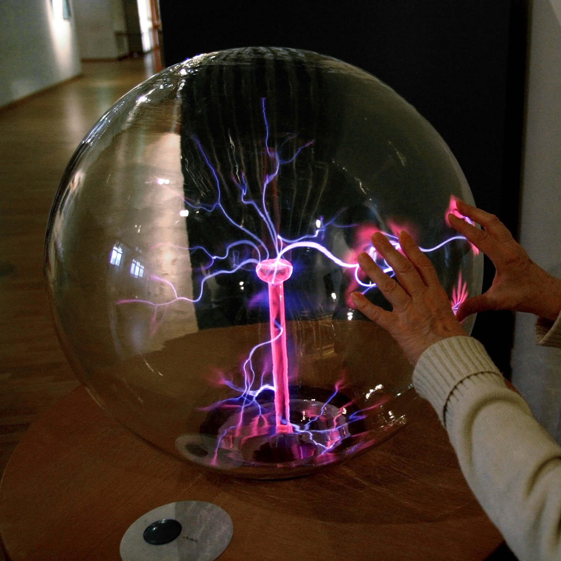 Plasma globe at the Vienna Technical Museum Vienna,Austria.